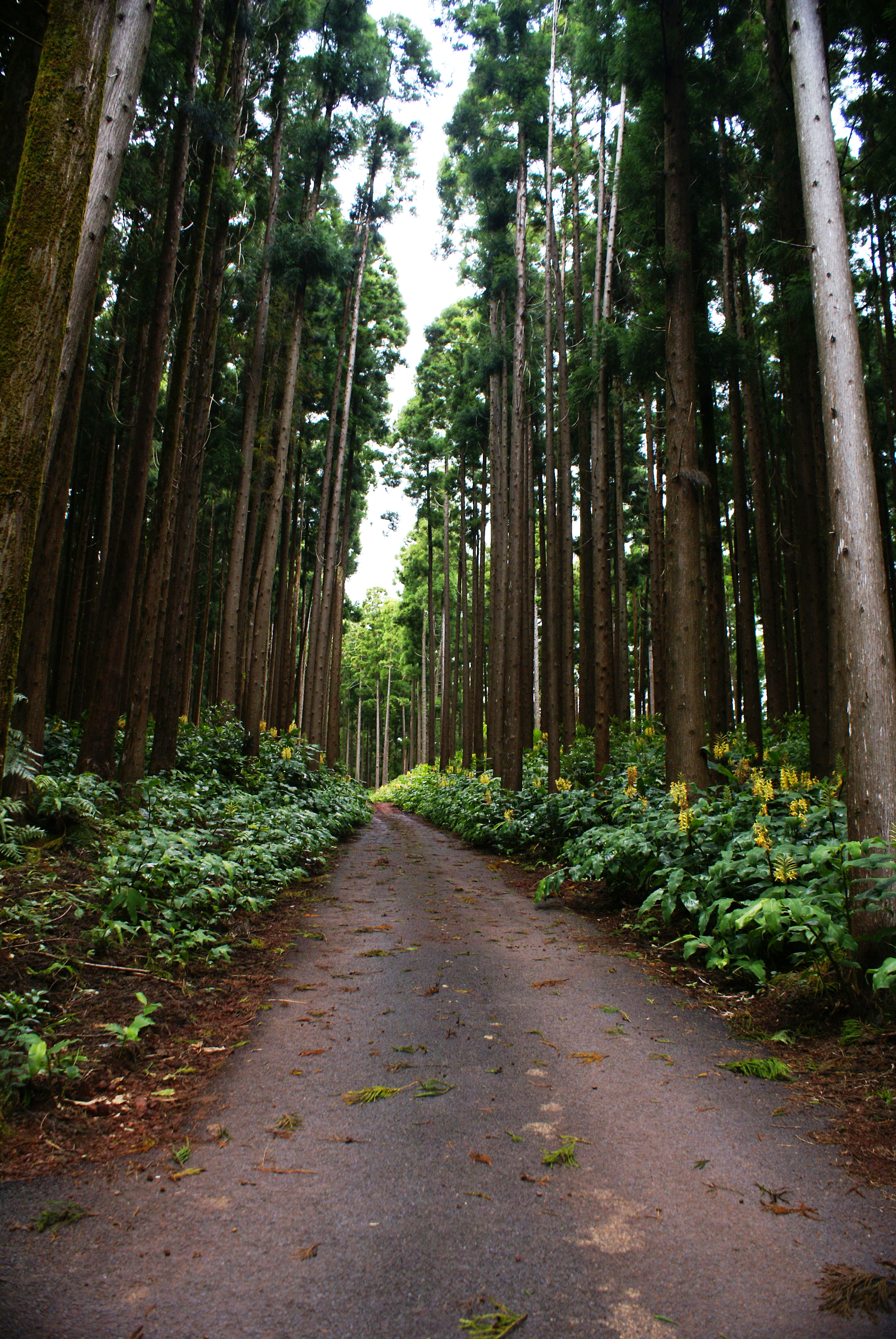 Reserva florestal da Falca, caminhos, concelho da Horta, ilha do Faial, Açores, Portugal